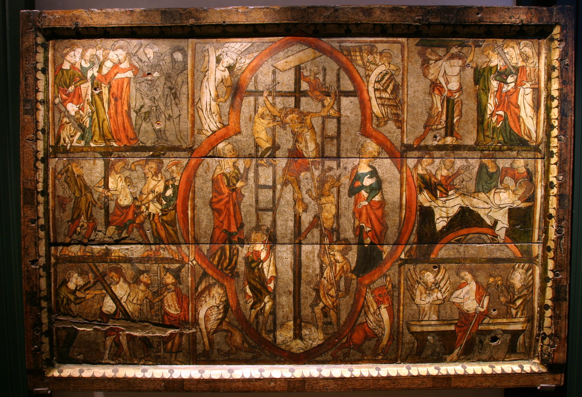 MOTIV: Frontale PERIODE: ca. 1300 FUNNSTAD: Nes kyrkje KOMMUNE: Luster ENGLISH: Front piece from altar found in Nes church, Western Norway. From around 1300 A.D. Exhivited in Bergen museum.